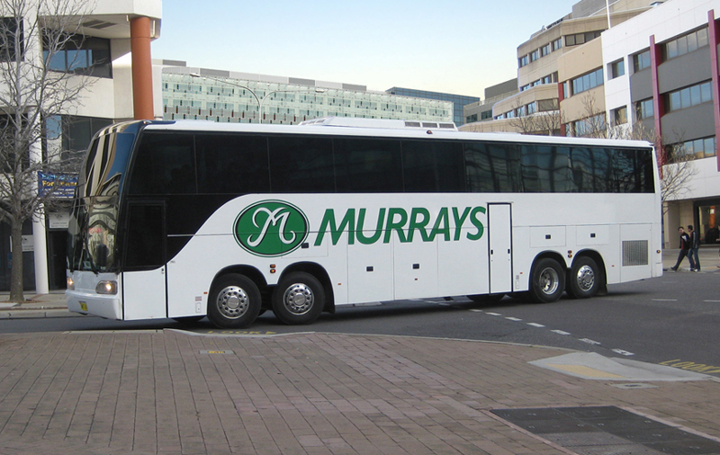 Austral Pacific bodied Scania K113TRBL 14.5m Quad-Axle Coach operated by Murrays in Canberra, Australian Capital Territory.